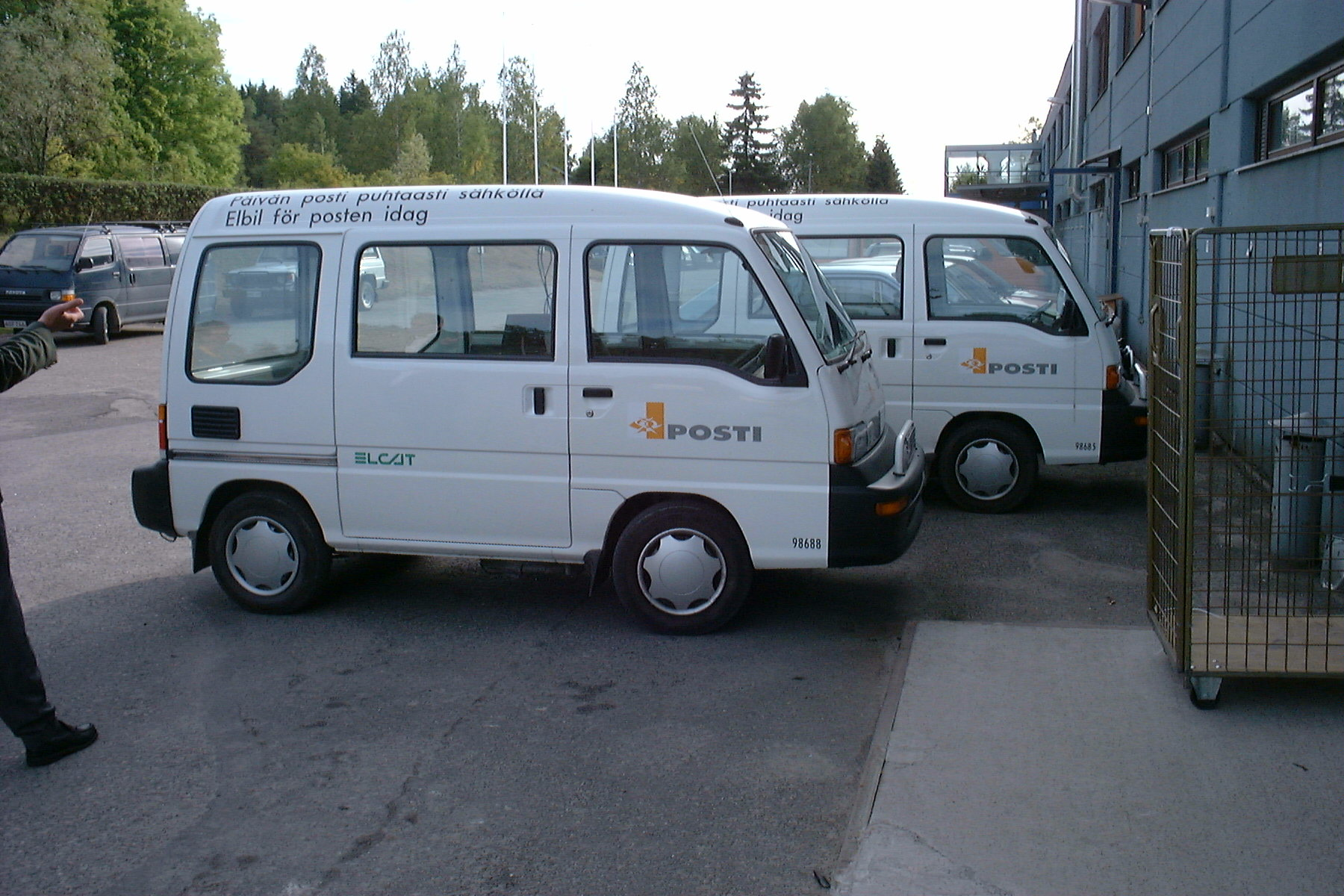 An Elcat electric vans used by Finnish Post Office in Turku.